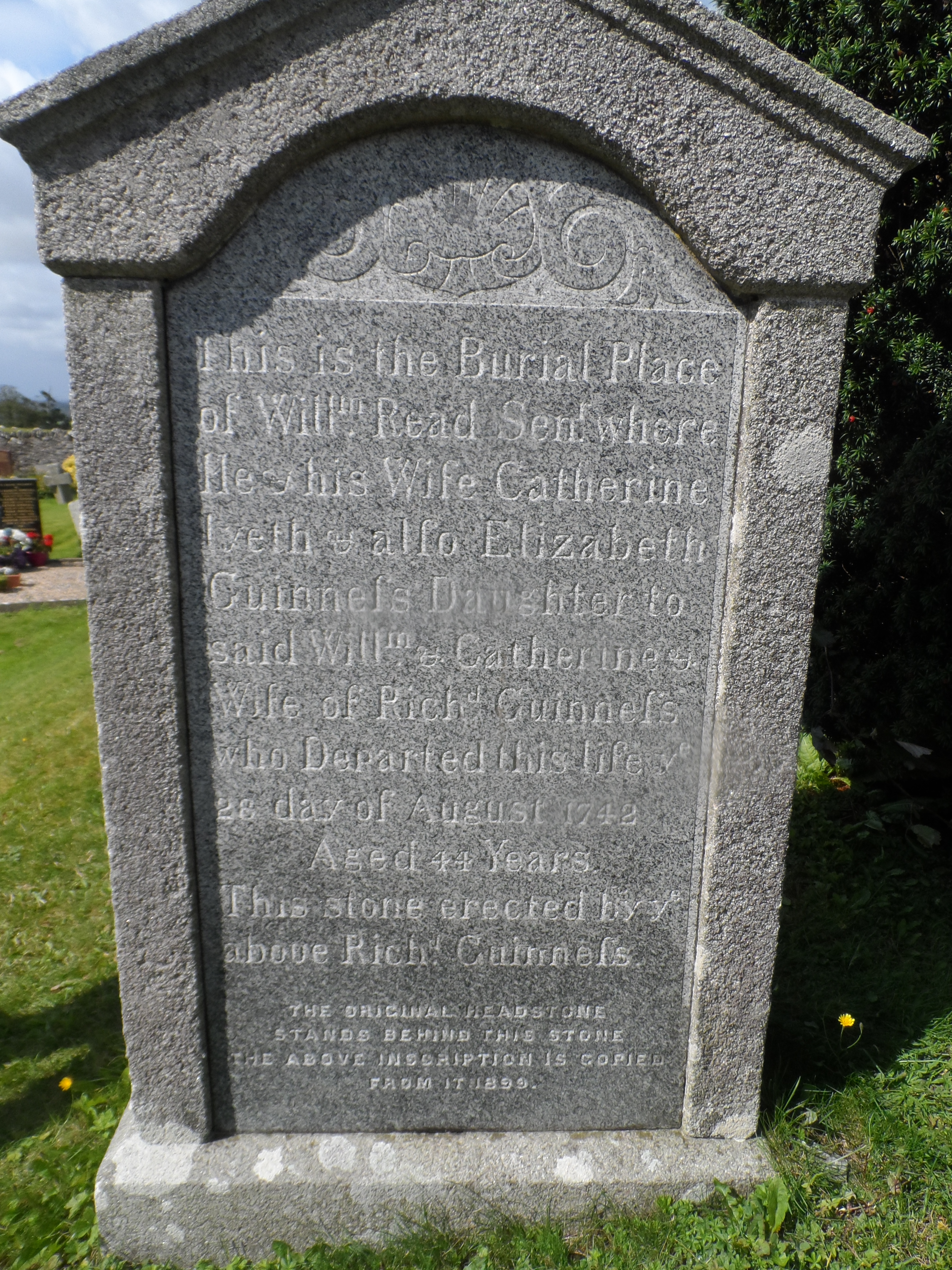 Grave, Oughter Ard